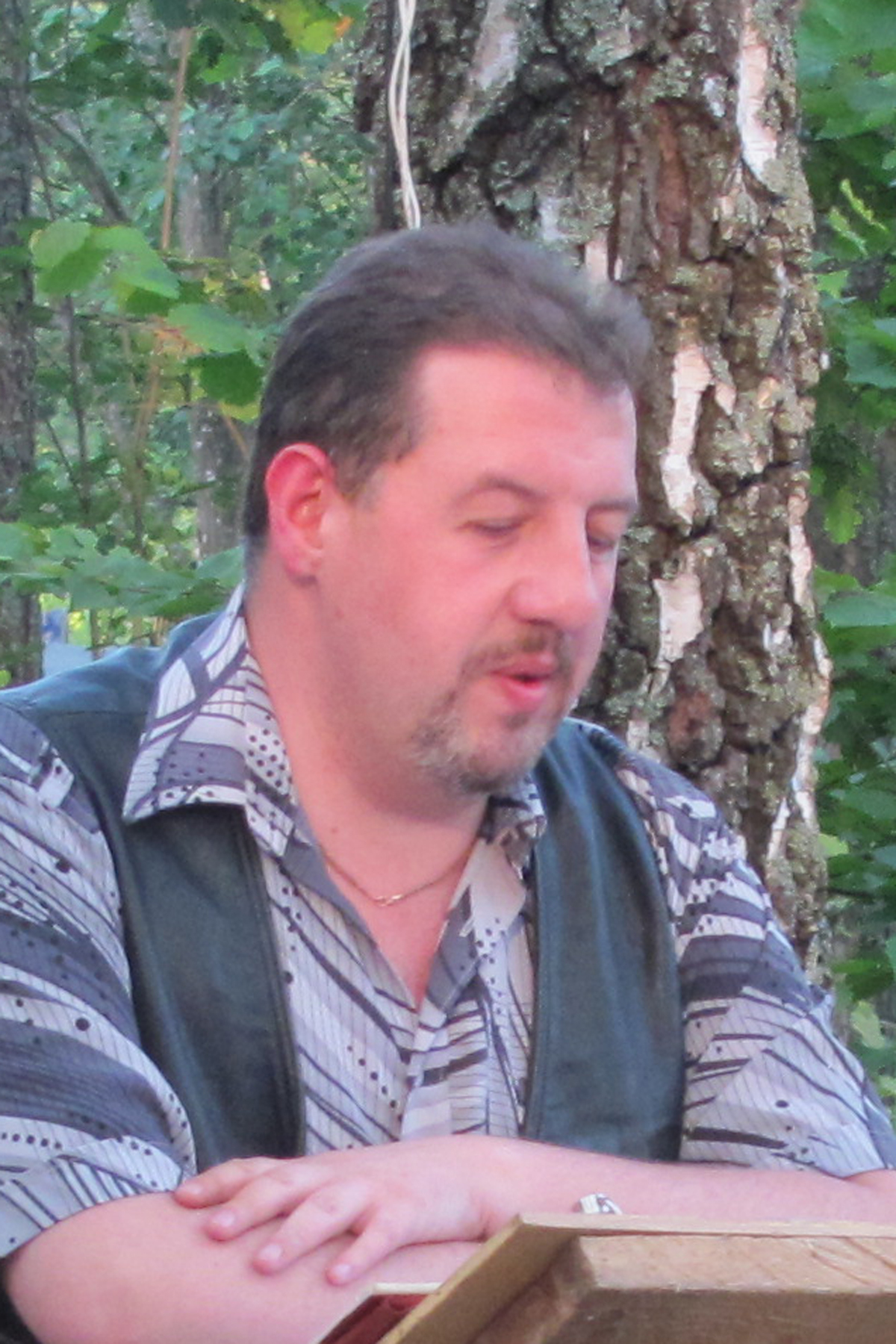 Belarus Teachers A Pletnev